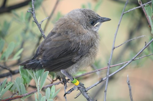 Recently fledged, poorly mobile, Southern Pied Babbler (Turdoides bicolor) fledgling.